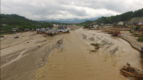 Akatani River was overflowed by the Northern Kyūshū Heavy Rain in Asakura City, Fukuoka Prefecture on July 7, 2017.